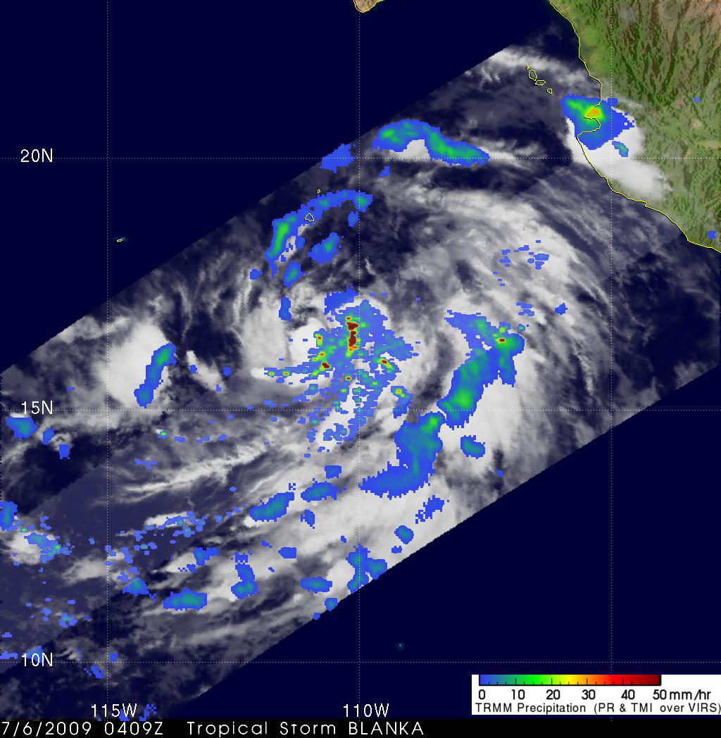 The TRMM satellite shows heavy rain, falling at about 2 inches per hour in Tropical Storm Blanca. Credit: NASA/SSAI, Hal Pierce